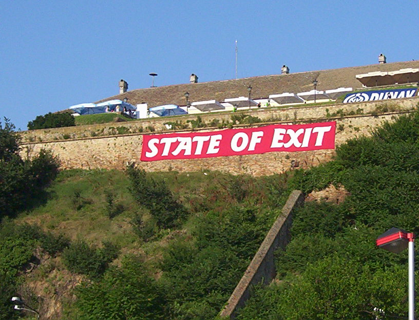 Petrovaradin Fortress and EXIT logo